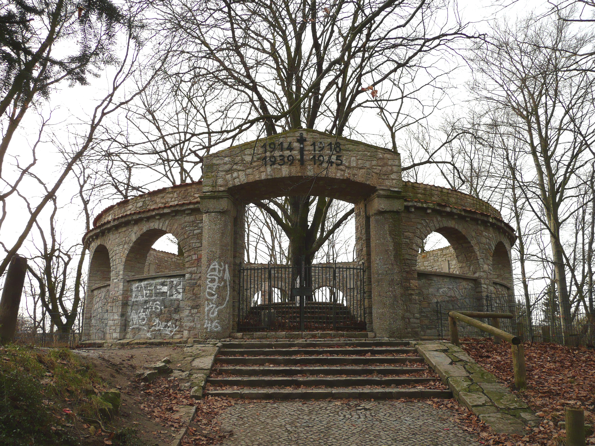 The memorial to the fallen of two world wars in the town park Lankwitz (Berlin)